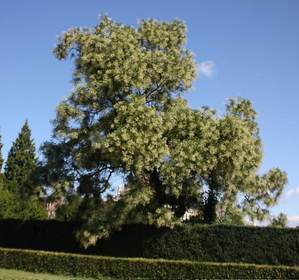 Lednice na Moravě, Czech republic, english park